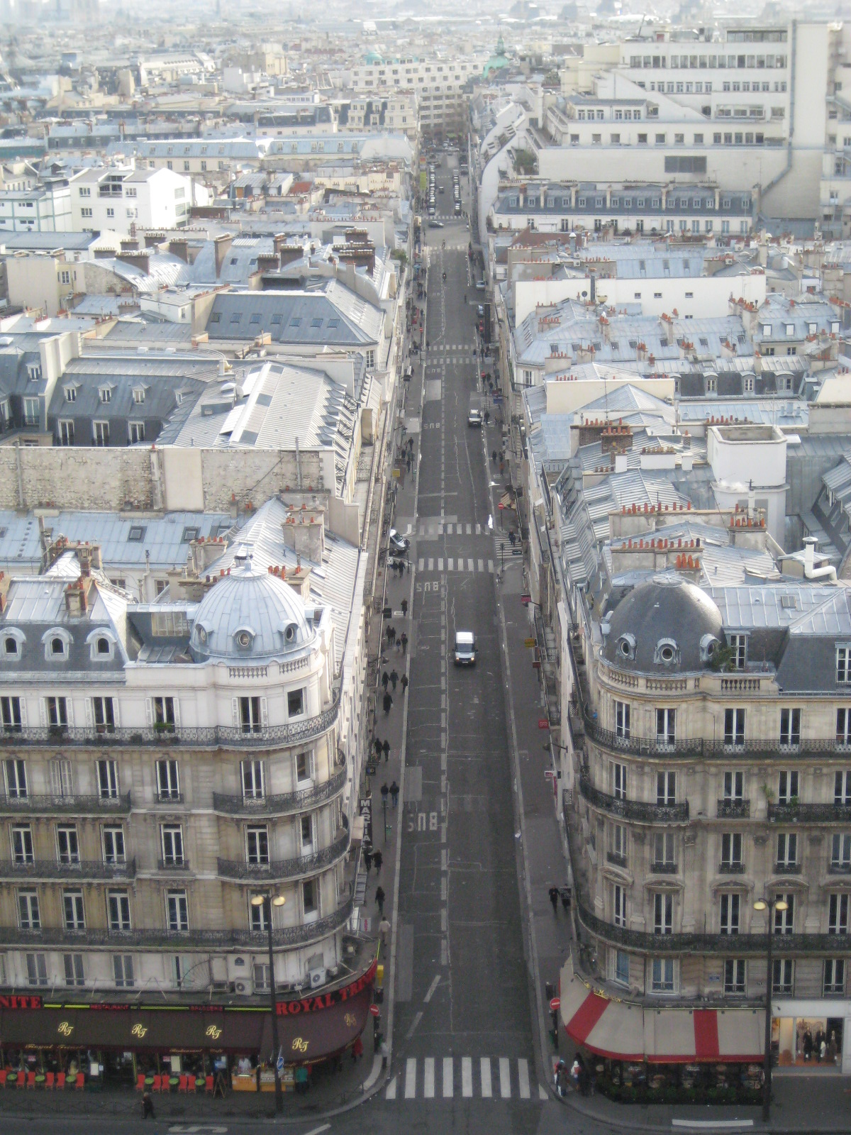 View of the Rue de la Chaussée-d'Antin from the the bell tower of the Trinity Church